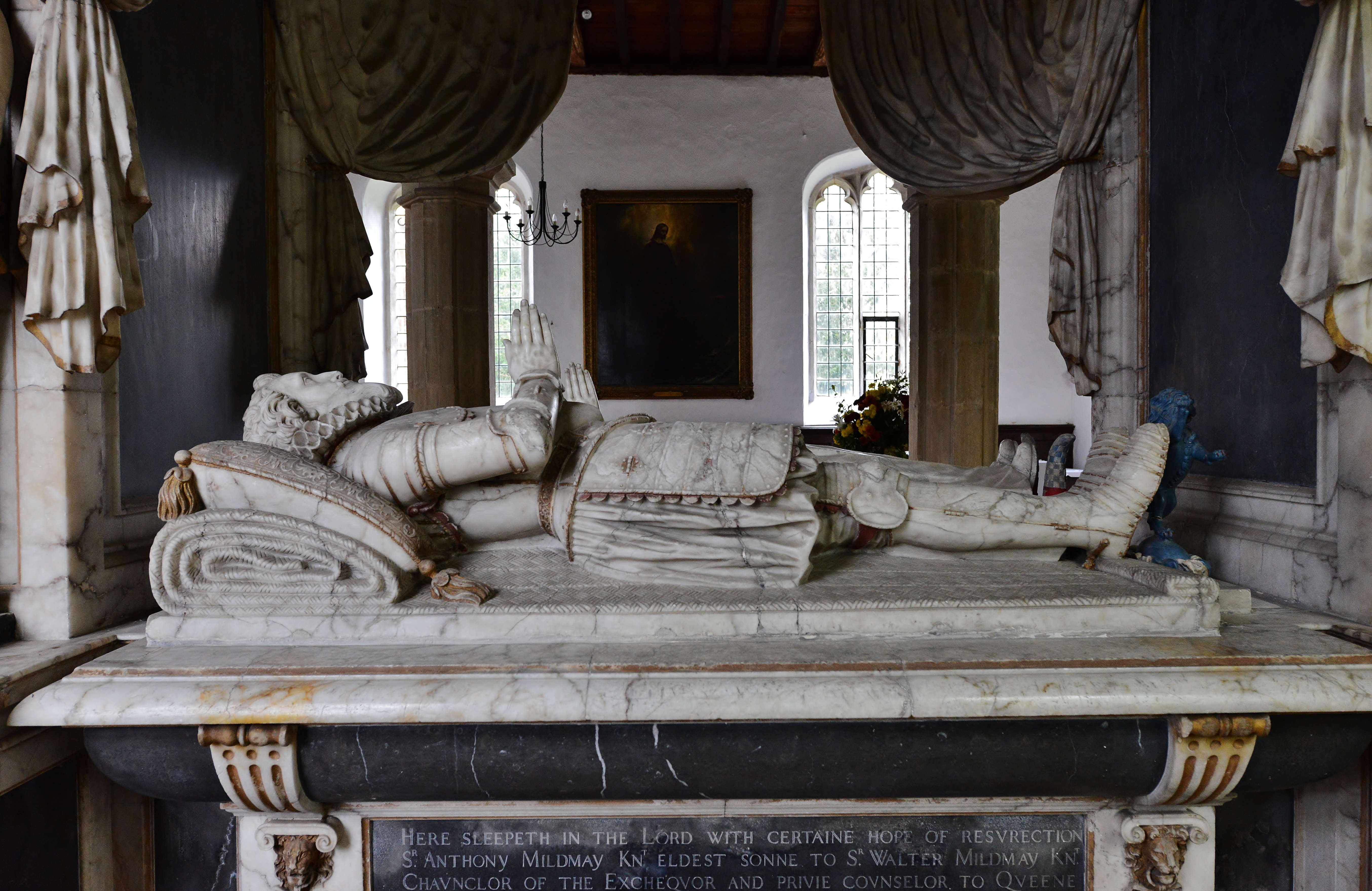 Effigy of Sir Anthony Mildmay (died 1617) of Apethorpe Hall, Northamptonshire, a Member of Parliament for Wiltshire from 1584 to 1586 and as English ambassador in Paris in 1597. South Chapel, St Leonard's Church, Apethorpe.